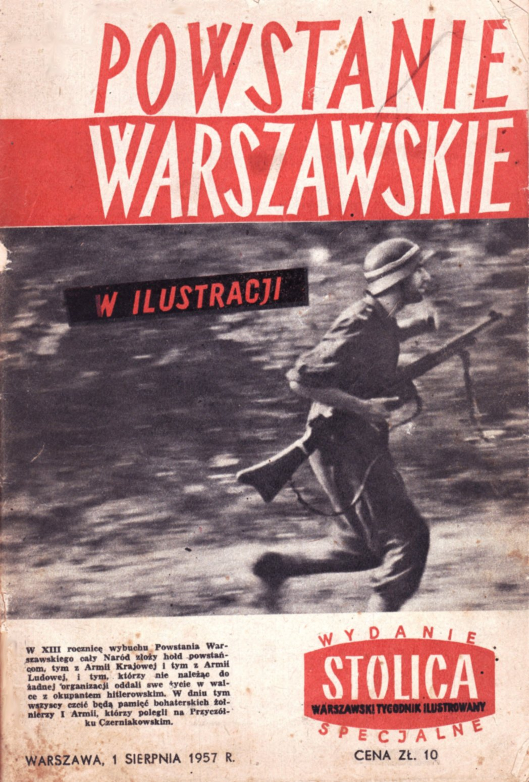 Front cover of special edition of "Stolica" magazine from 1957-08-01. Whole issue was devoted to photos from Warsaw Uprising